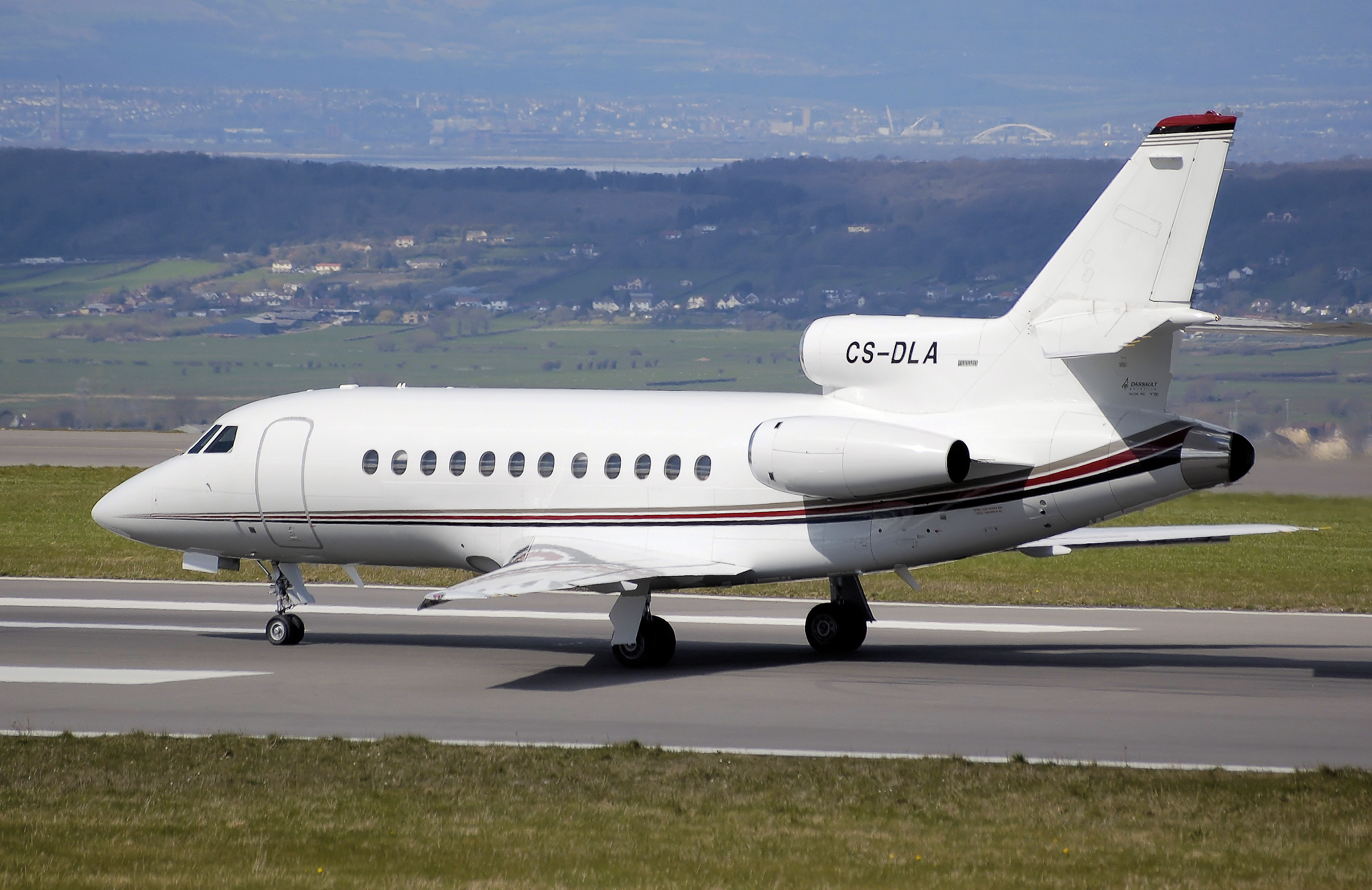 Dassault Falcon 900B (CS-DLA) taxis after landing at Bristol International Airport, England.